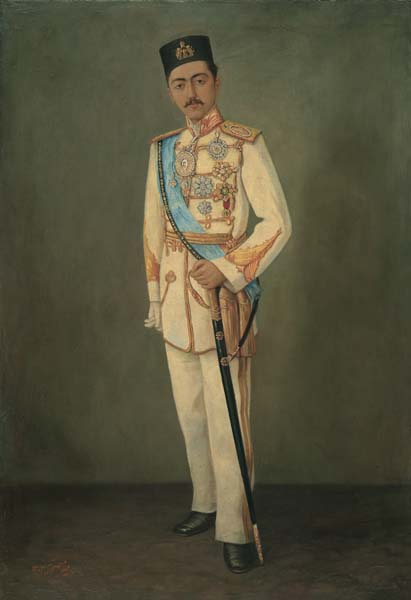 Portrait of Mohammad Hassan Mirza